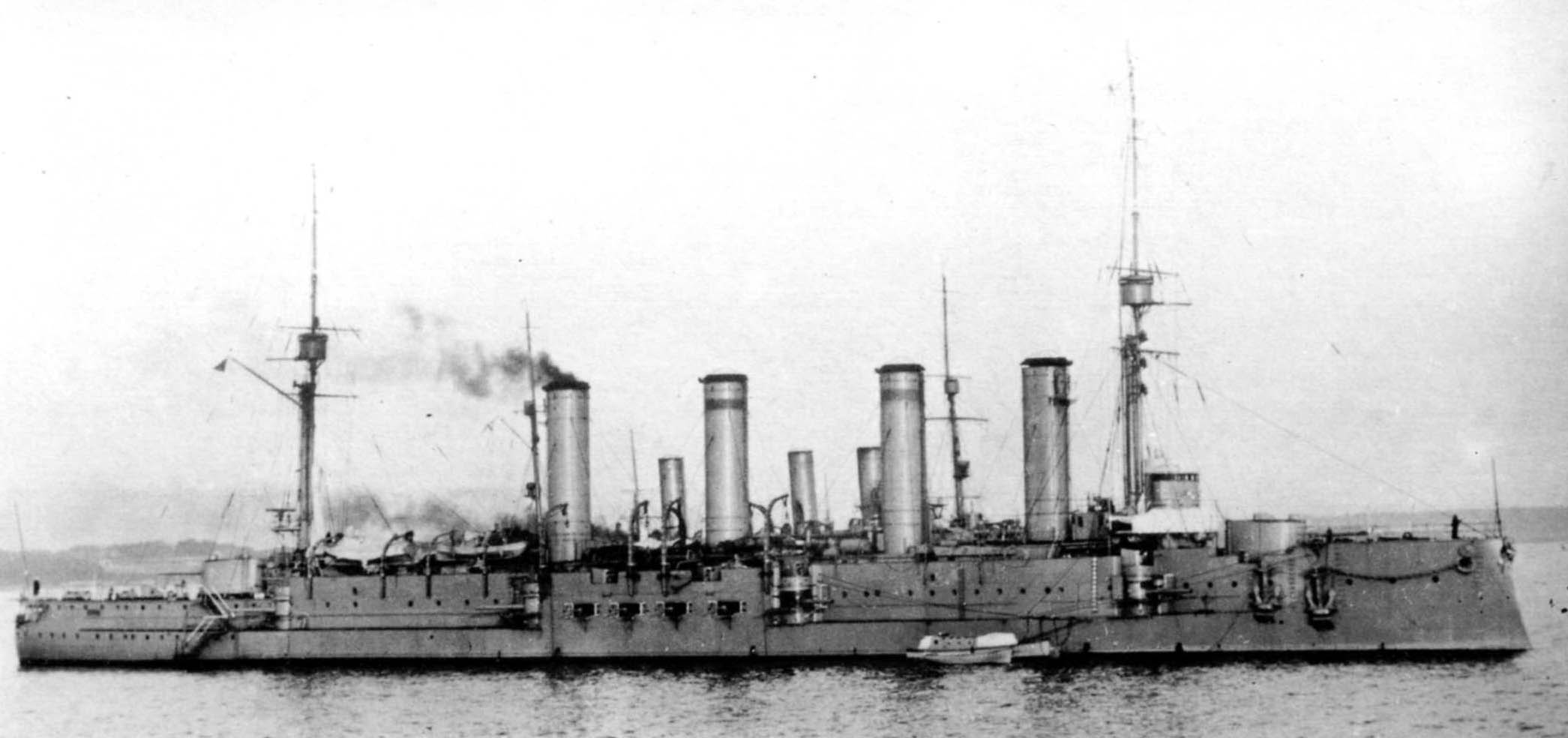 Armoured cruiser Pallada